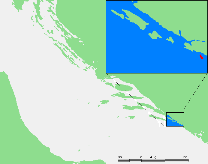 Island of Croatia - Croatia - Elafit Islands - Lokrum.PNG